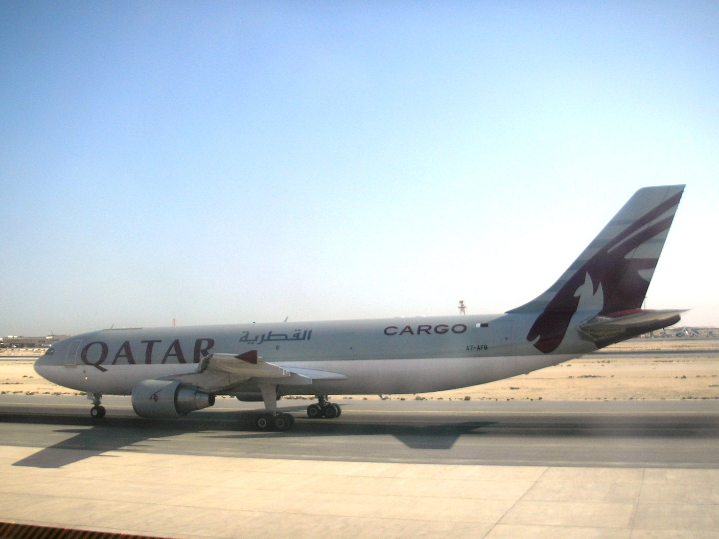 Qatar Airways at Doha International Airport.